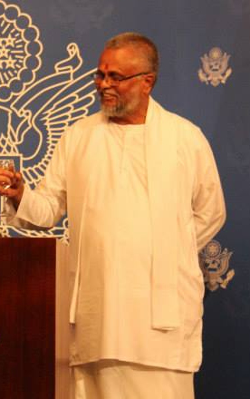 at the Douglas Devananda ar the US embassy 4th of July celebrations